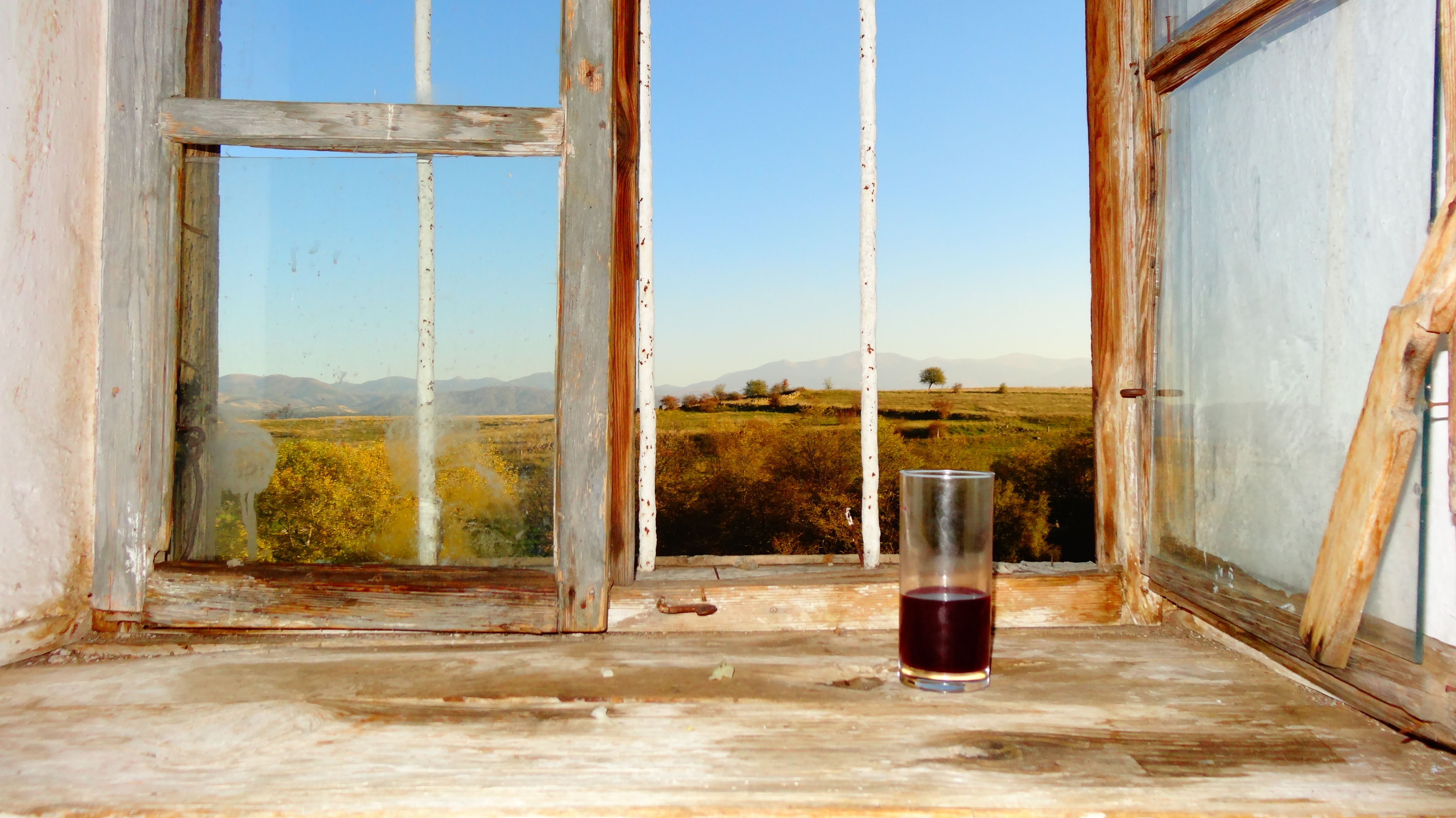 Glass of macedonian home-made red wine.